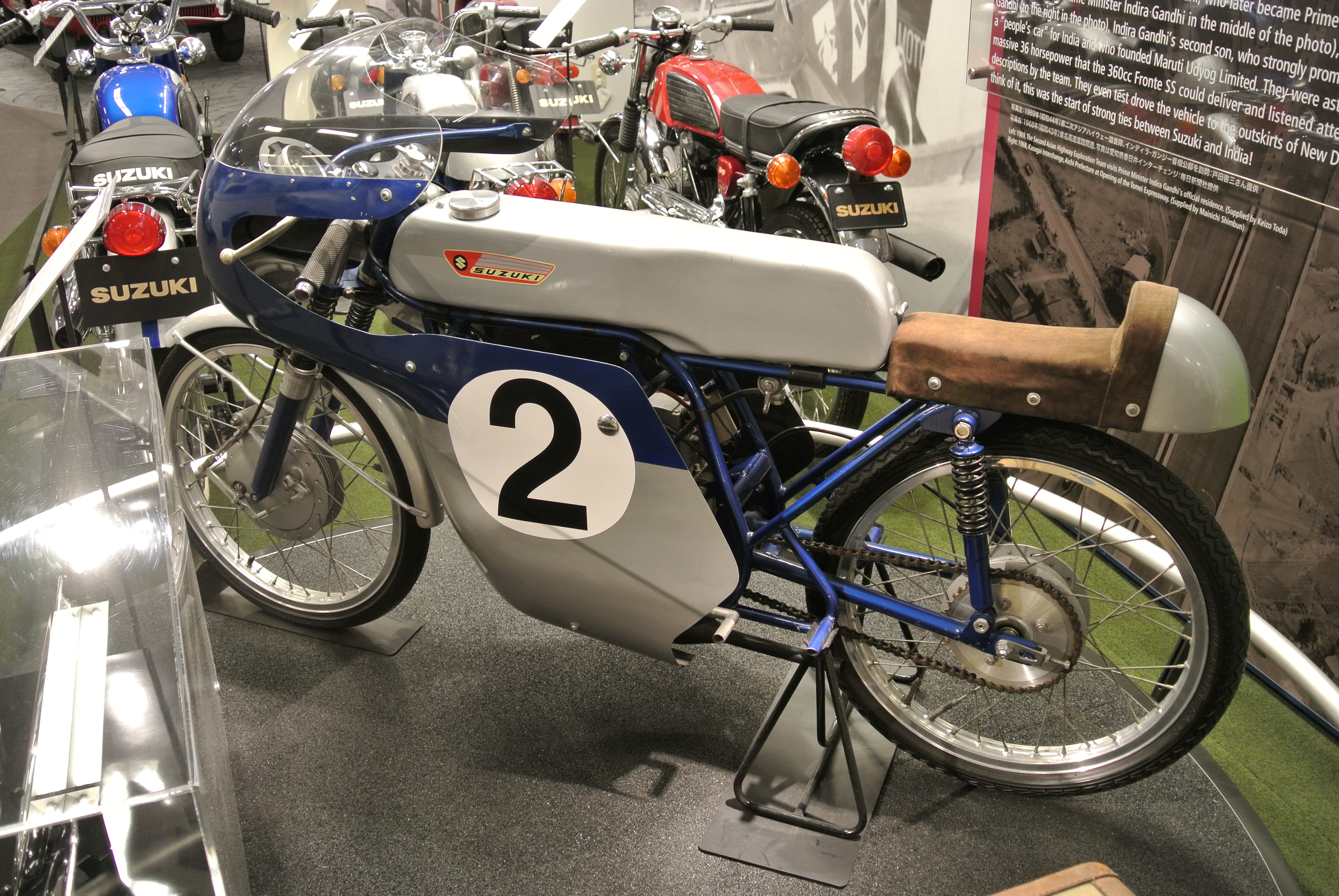 1962 RM62 in the Suzuki History Museum.